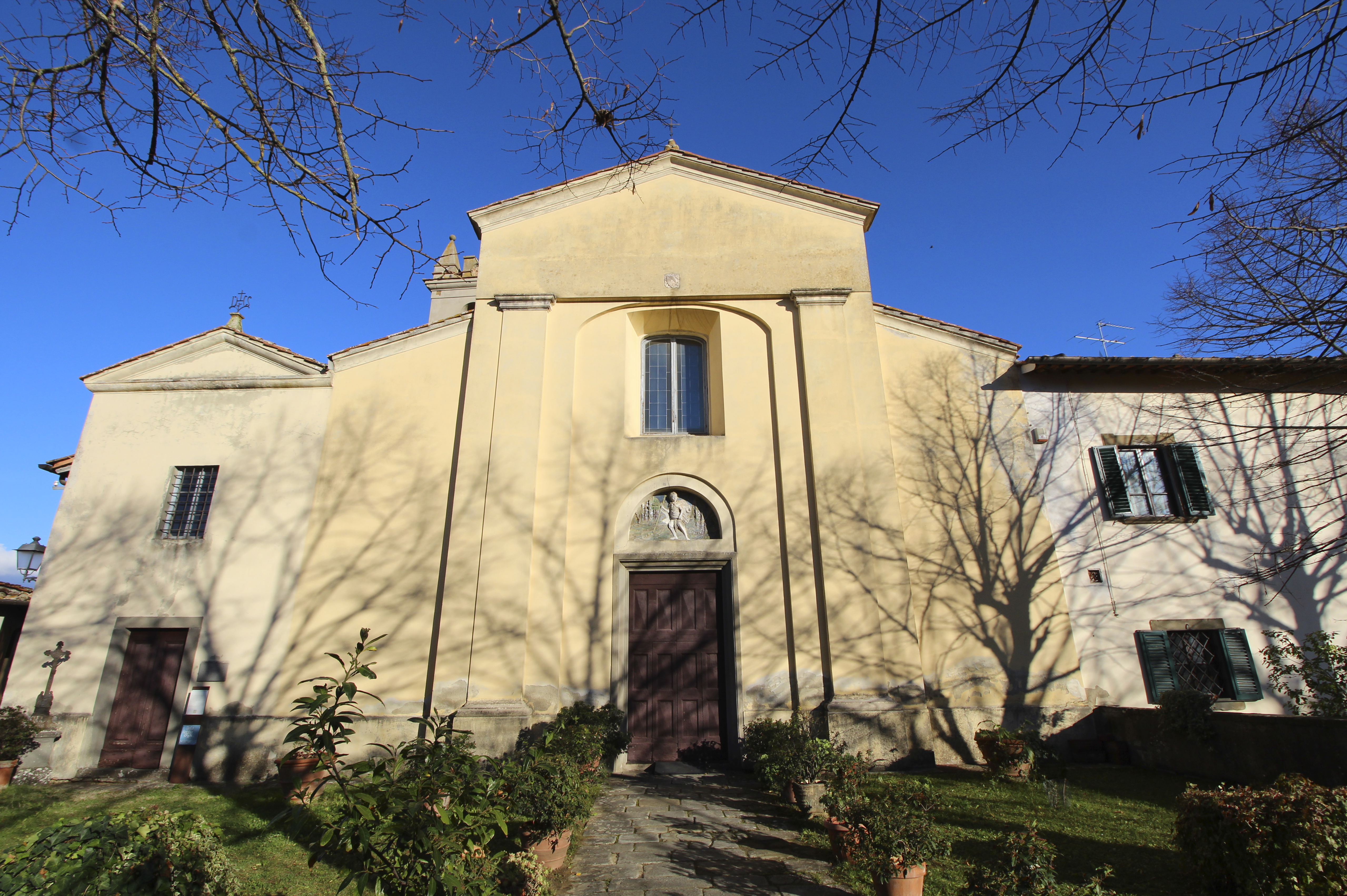 Church San Giovanni Battista, Cavriglia, Province of Arezzo, Tuscany, Italy